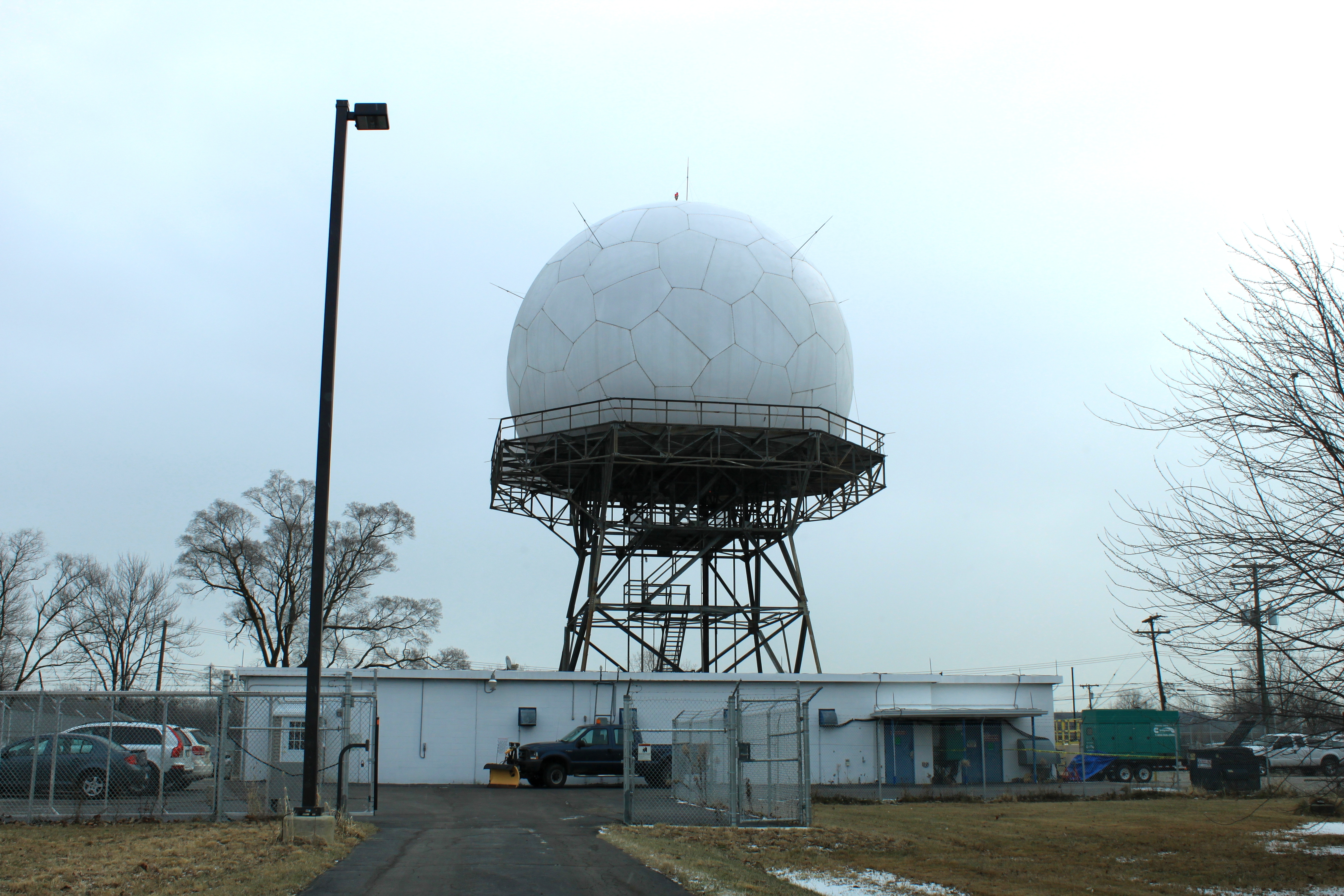 Federal Aviation Administration Joint Surveillance Site radar, near Geddes Road, Canton, Michigan